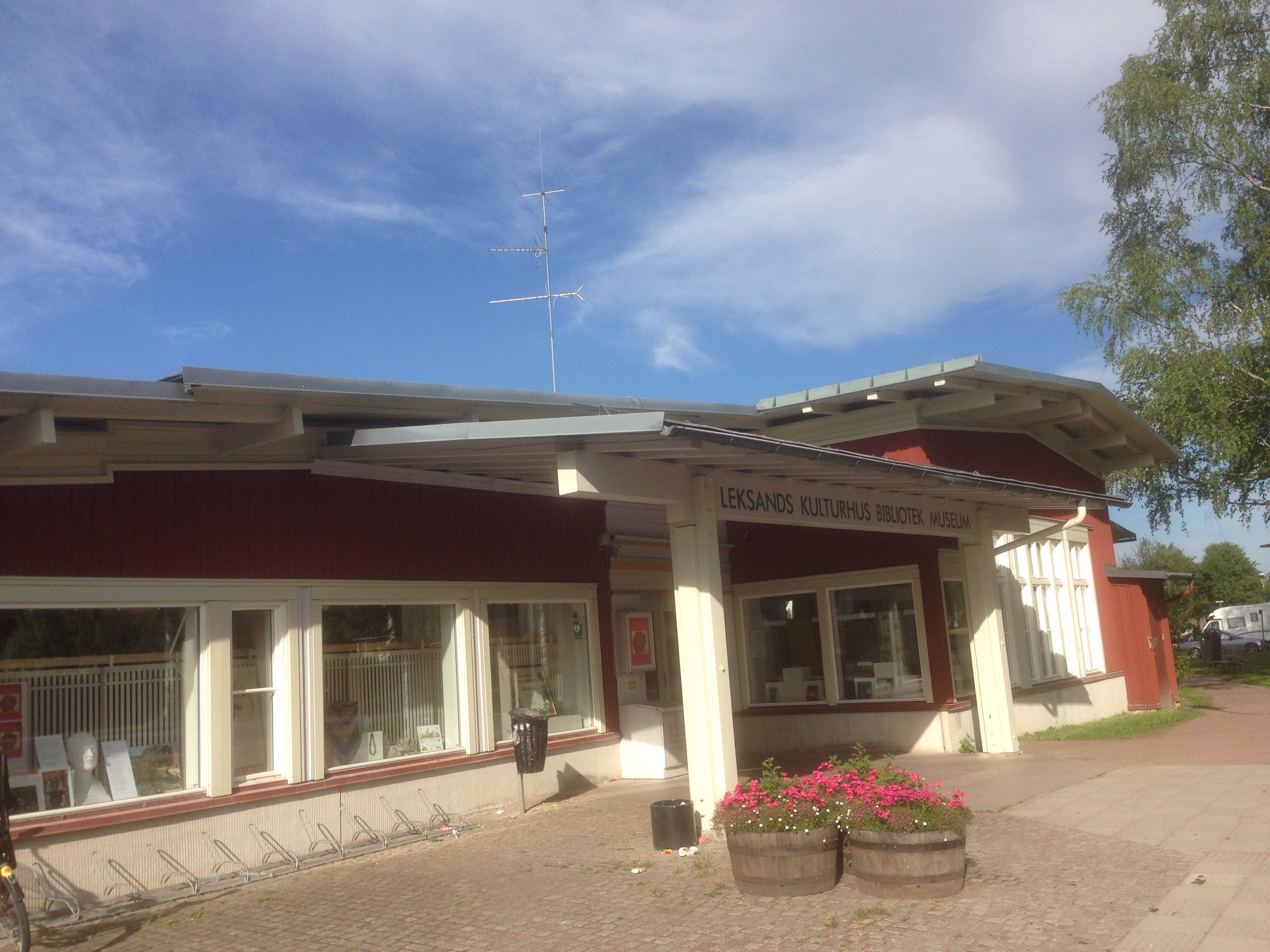 Leksand cultural .house